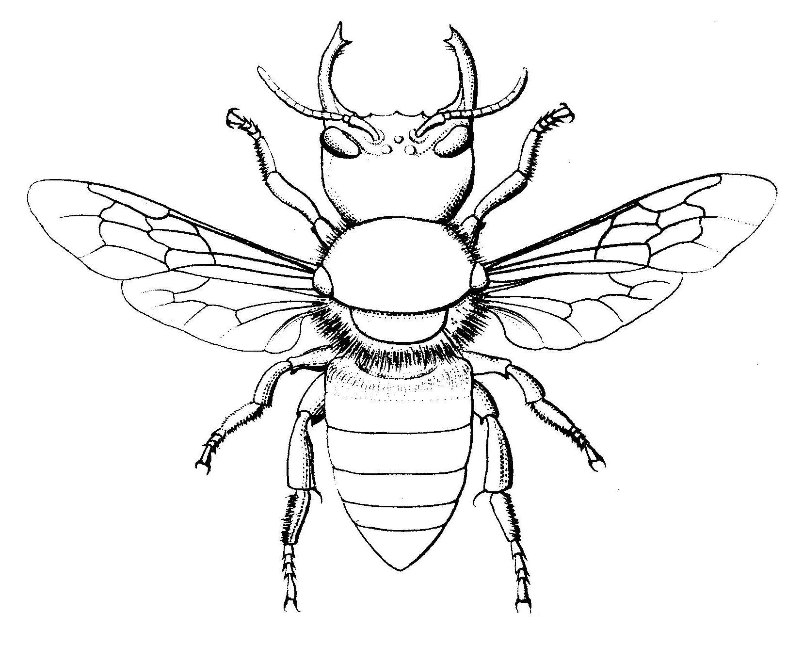 Megachile Pluto, femelle imago. Drawing of the orginal description